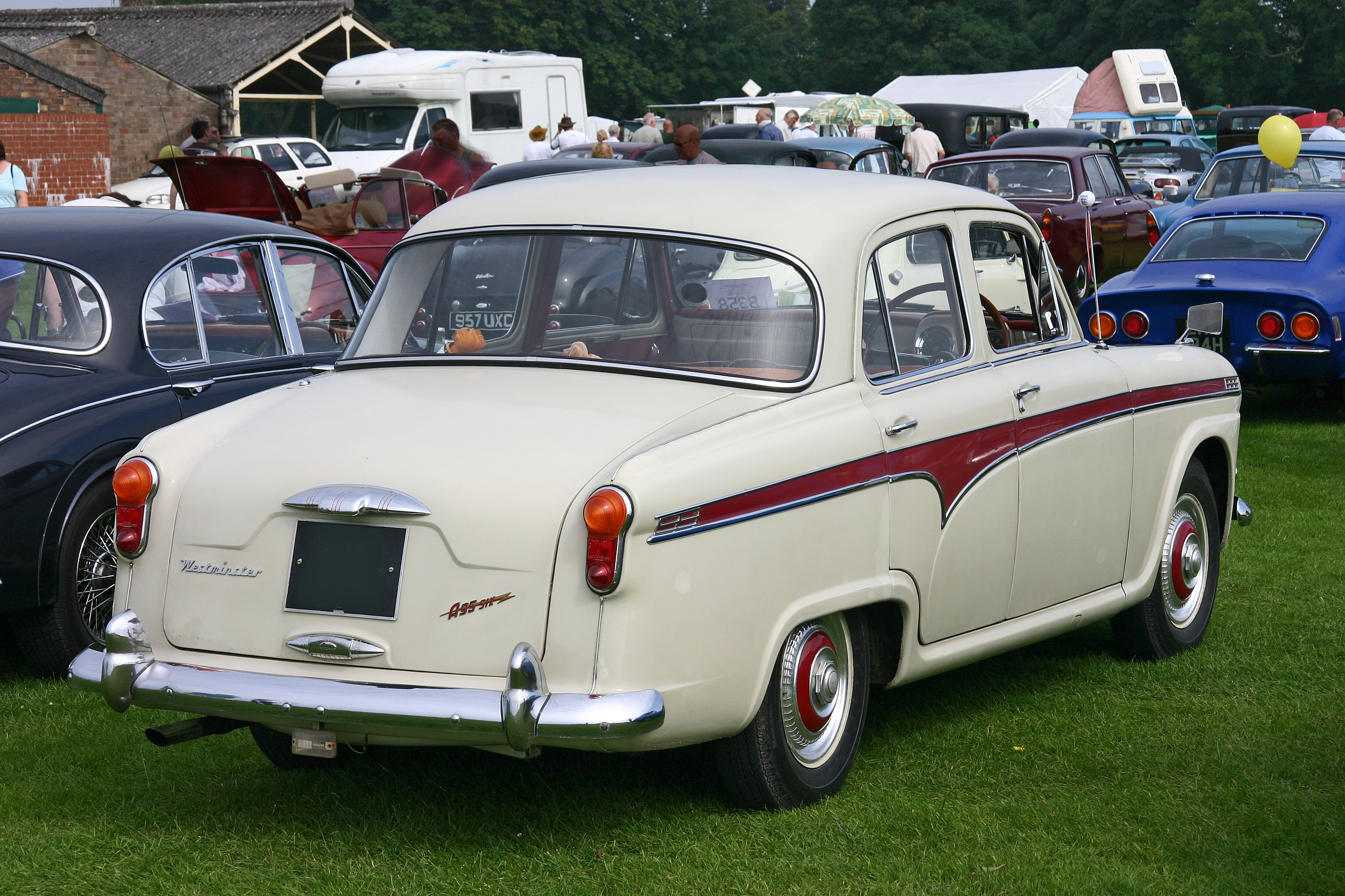 Austin A95 Westminster. In common with the Cambridges, the A105 was given a revised longer wheelbase body with longer boot and wraparound rear window. However, only the door skins were common to A55 and A95/105.